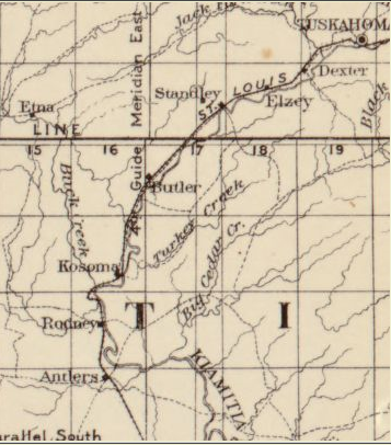 Indian Territory: compiled under the supervision of Charles H. Fitch, topographer in charge of the Indian Territory surveys. Blow-up of specific portion of larger map, to treat as inset. Inset shows modern-day Pushmataha County, Oklahoma.